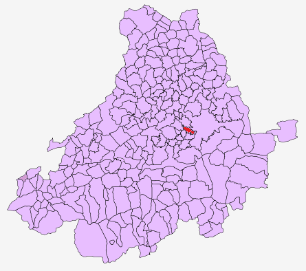 La Colilla